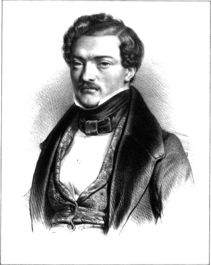 Drawing of Gilbert Duprez (1806-1896), French tenor